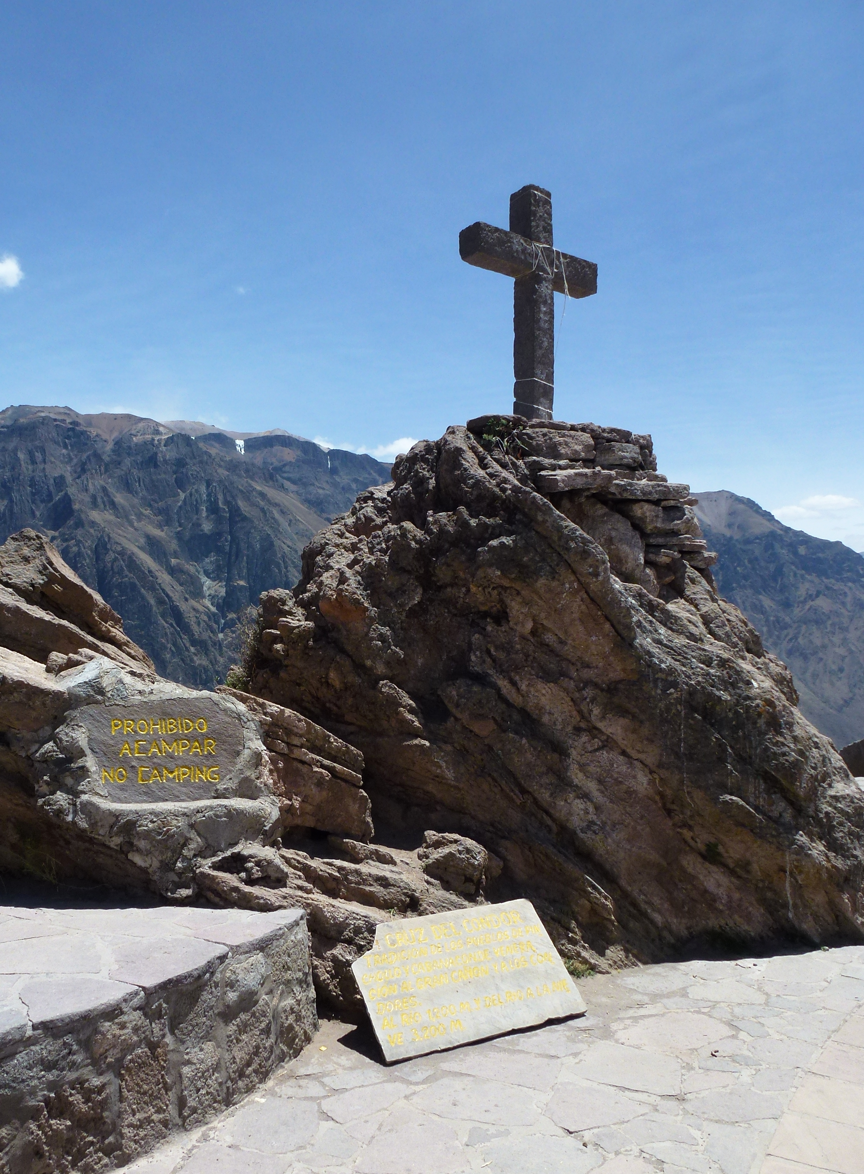 Colca Canyon, Arequipa, Pérou